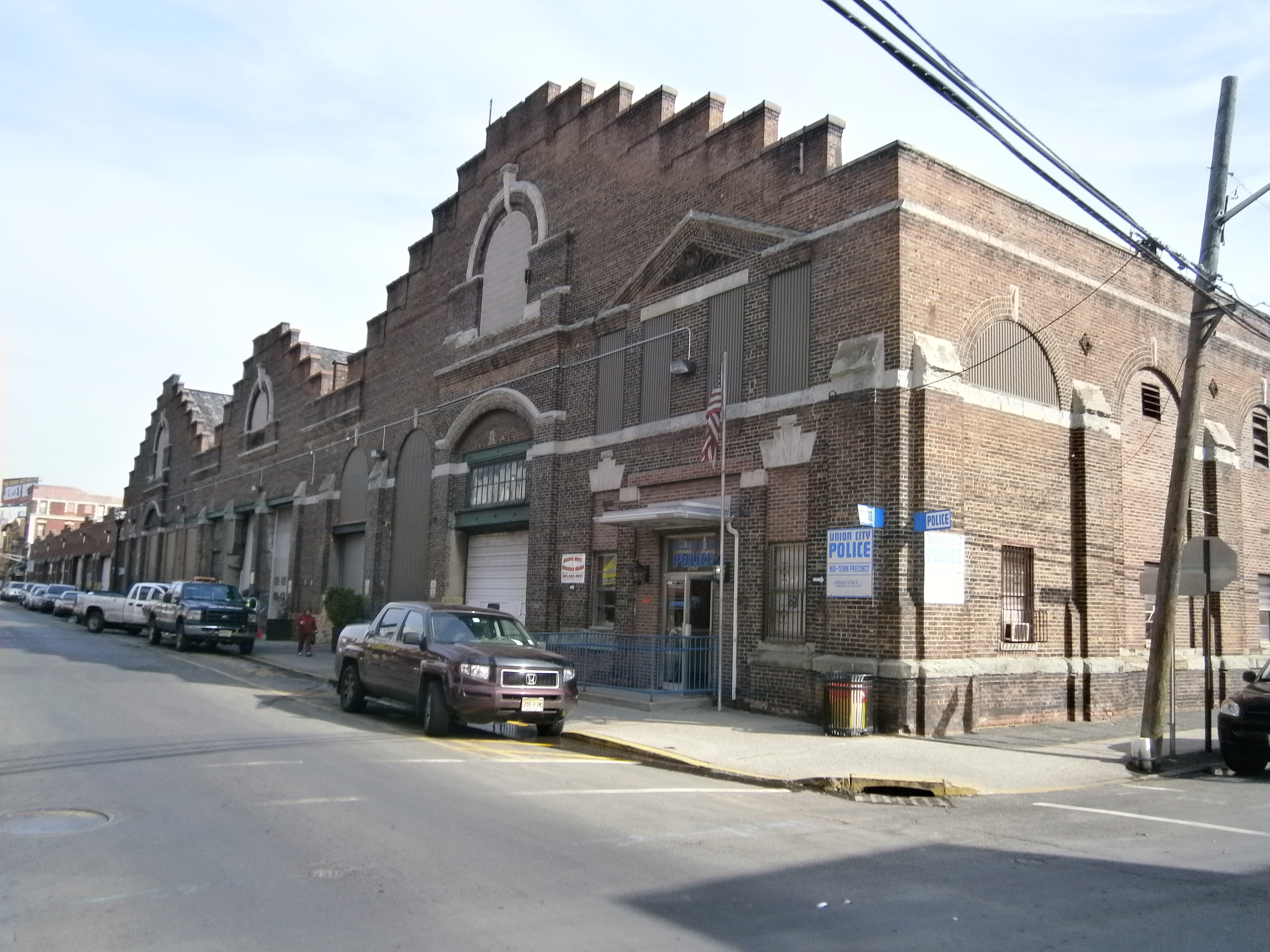 North Hudson County Railway's former trolley house on Bergenline Avenue in Union City. It is now used by Union City's Police Department and Department of Public Works